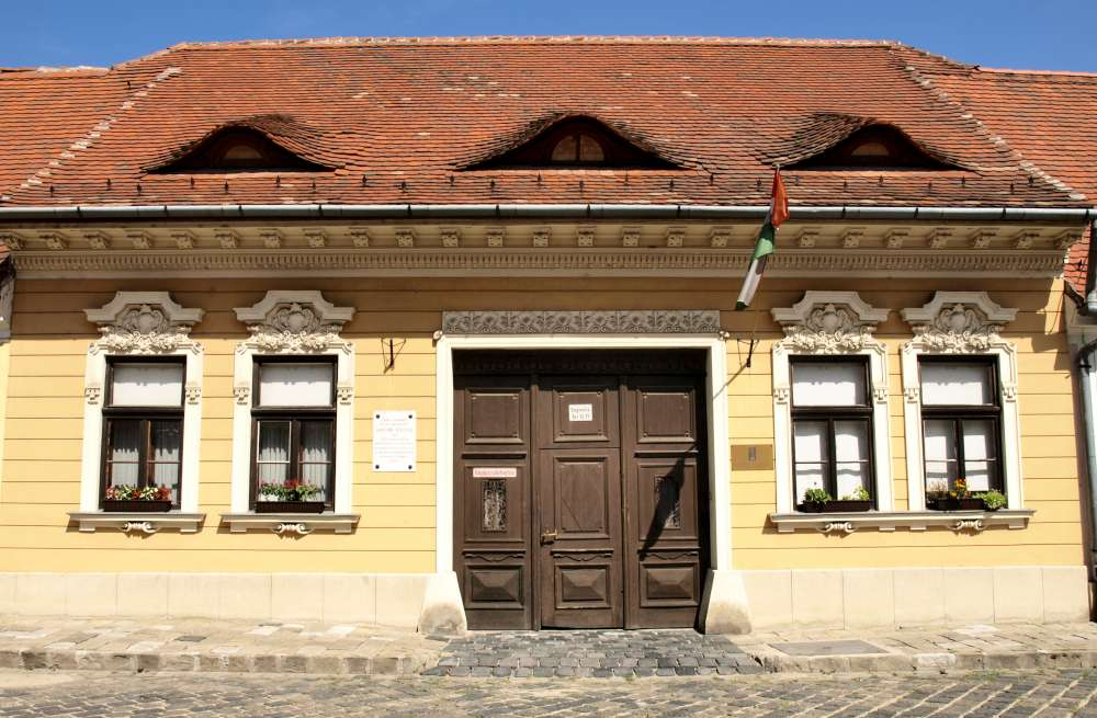 Gyula Krúdy Memorial House in Budapest